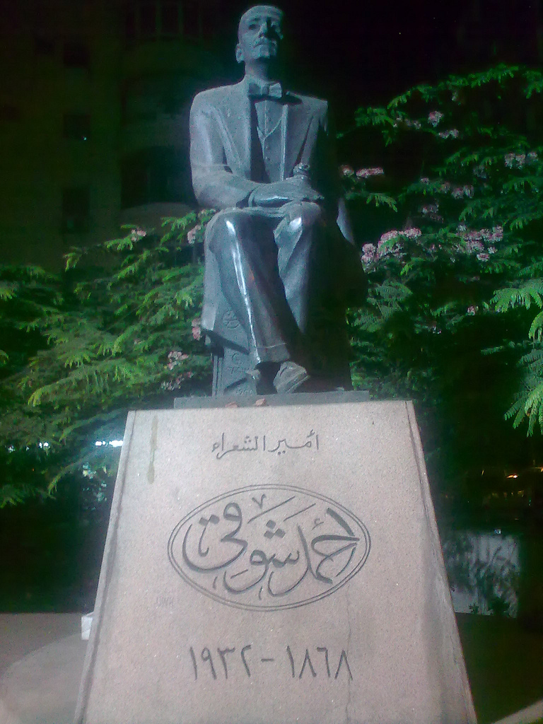 Image I took of the Monument of Ahmed Shawki in Dokki Street, Giza